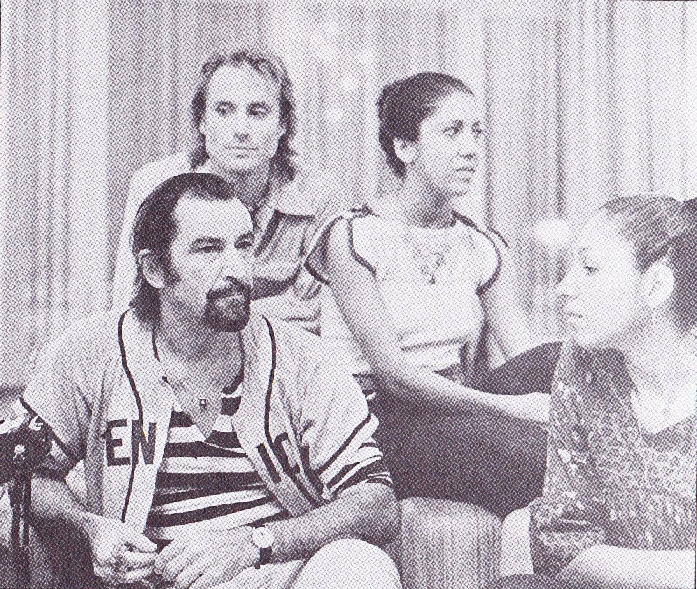 Maurice Bejart, Shiraz art festival, Shiraz, Iran, 1975 avec Sussan Deyhim, Tom Crocker and Aida Amir Khanian